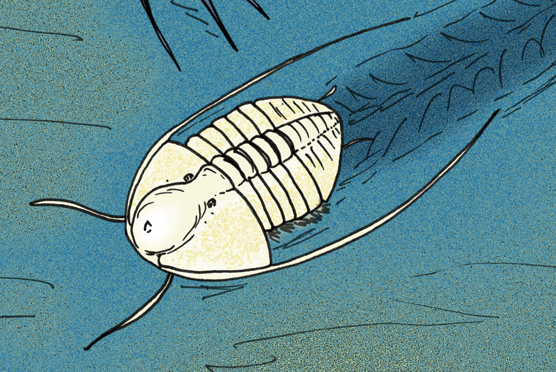 Reconstruction of the raphiophorid asaphid trilobite, Glombapyx trinucleoides, of Early Ordovician Norway